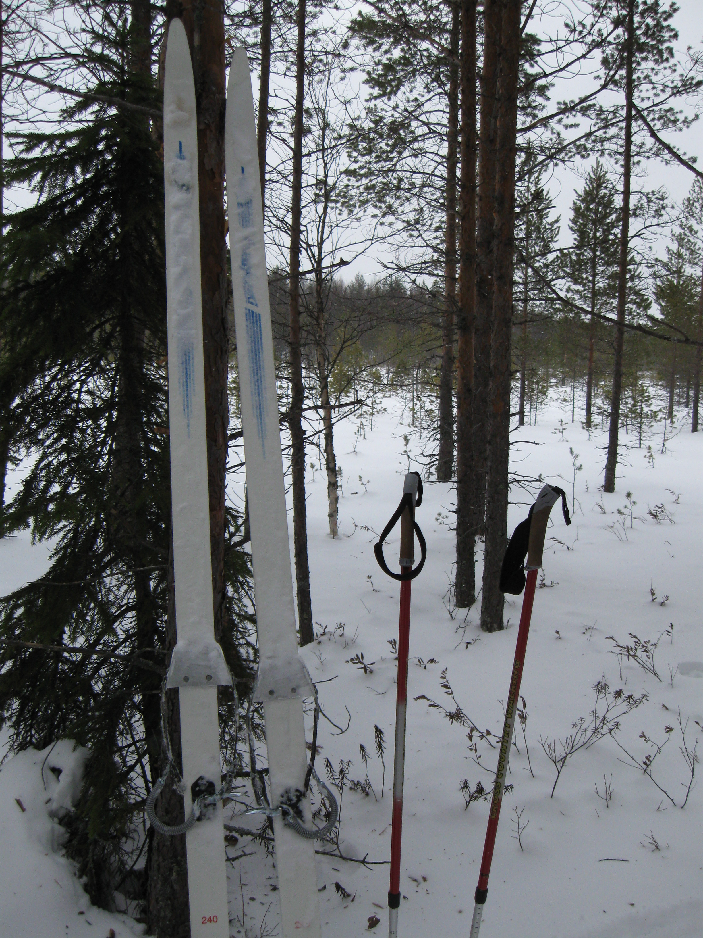 A pair of 240 cm long skis meant for skiing in forests with no ready-made tracks.